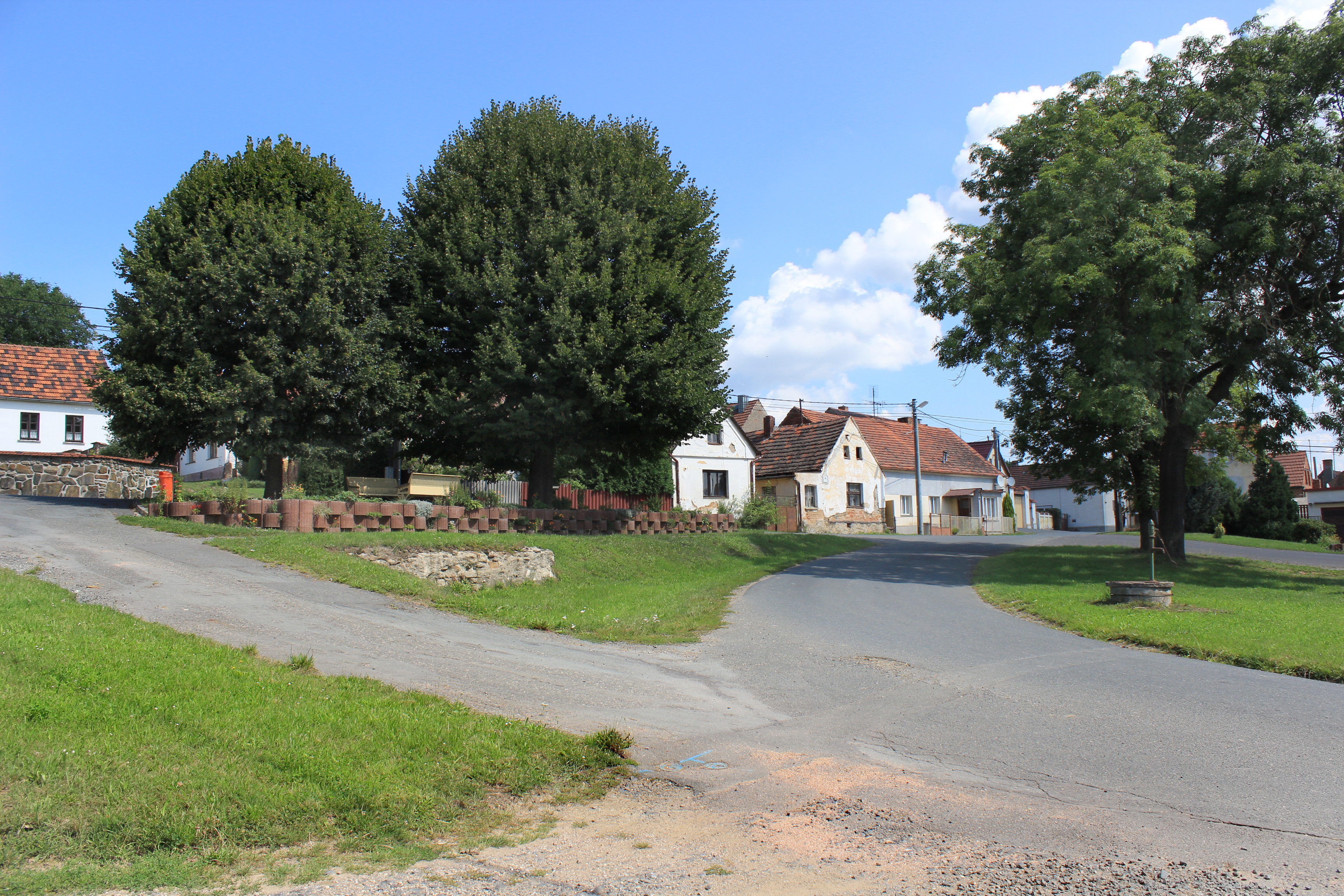 North common in Hlohová, Czech Republic.